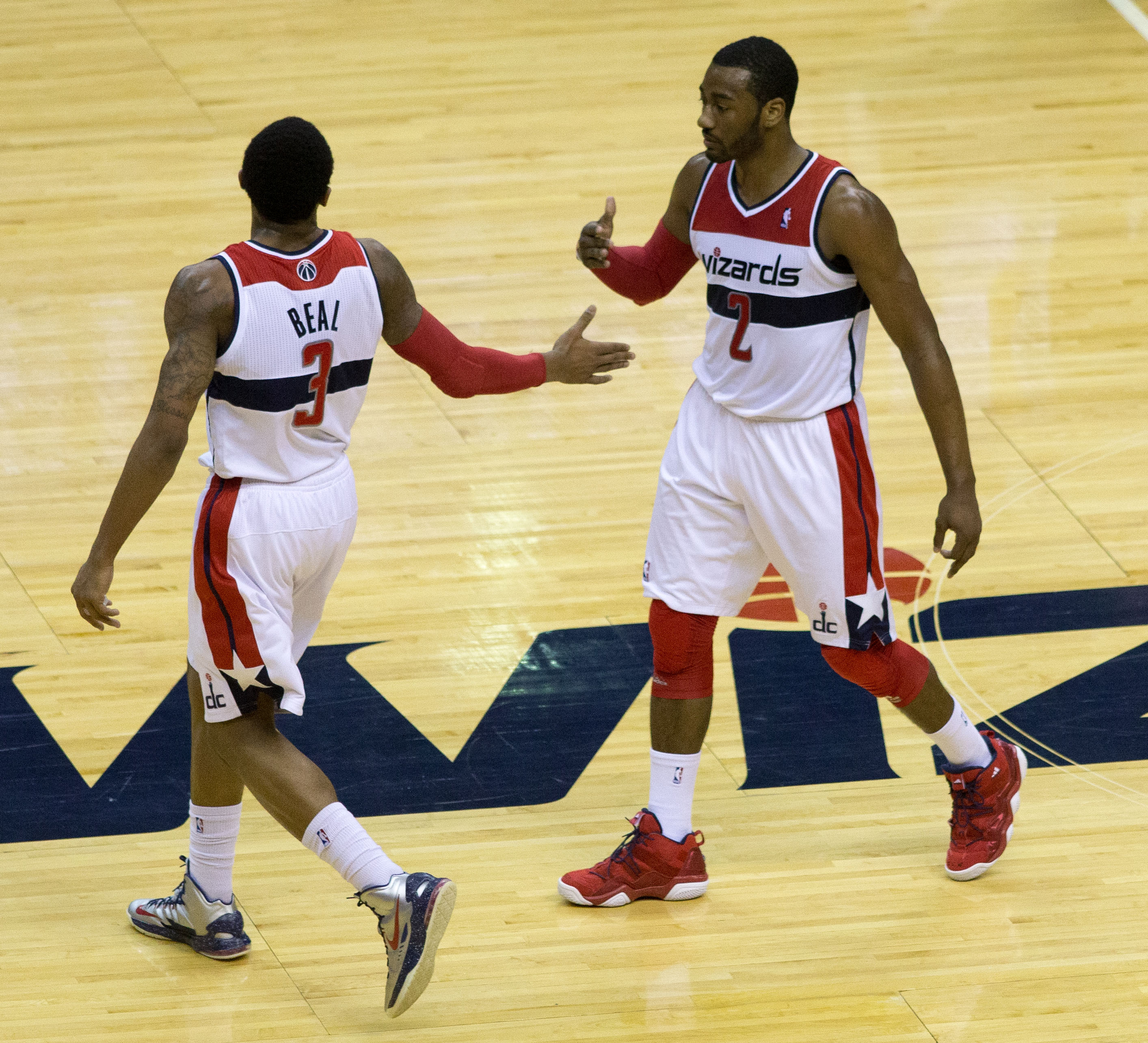 New York Knicks at Washington Wizards March 1, 2013